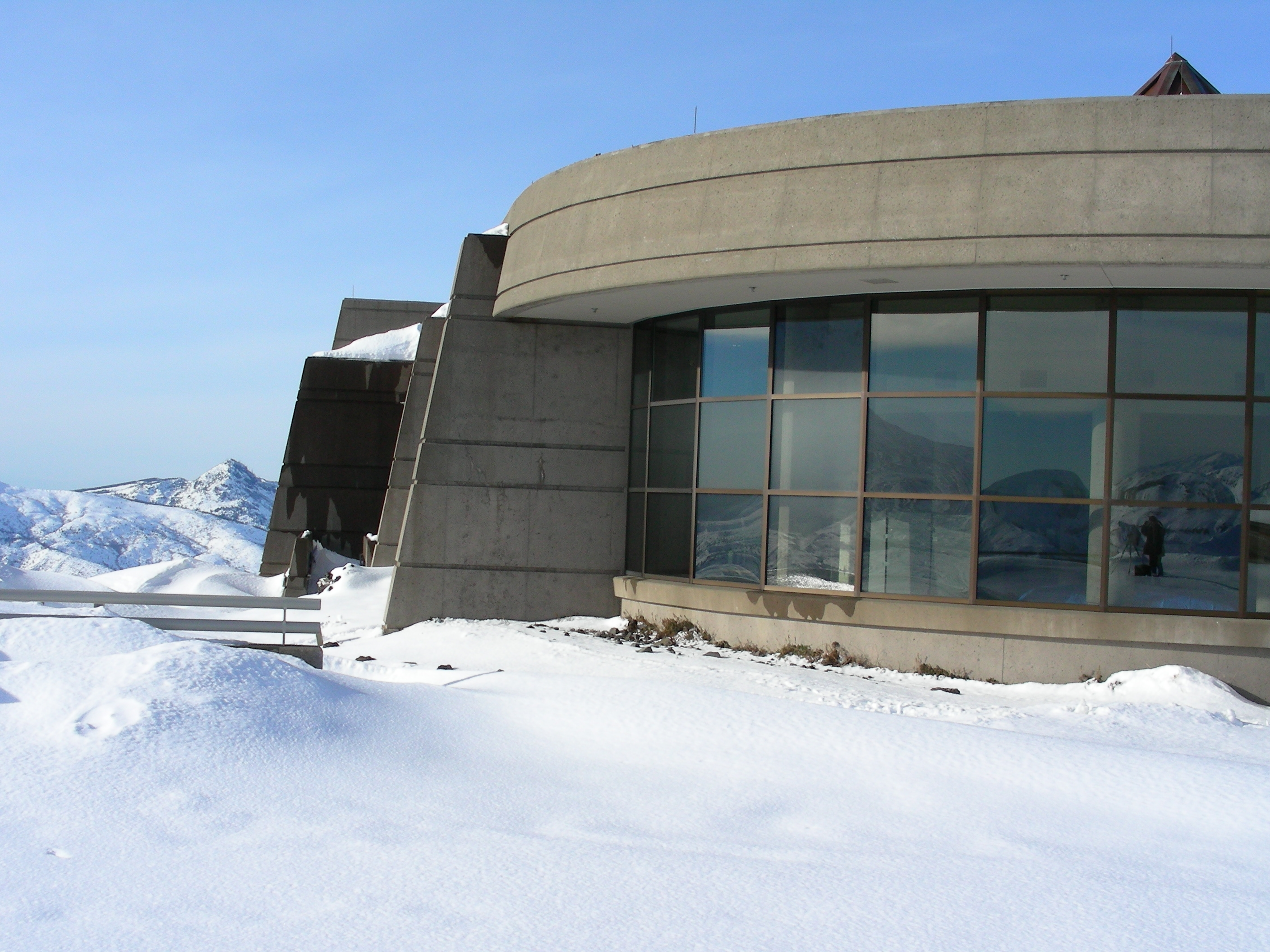 Winter, Johnston Ridge Observatory (JRO). USGS Photograph taken on December 9, 2005, by Elliot Endo, courtesy U.S. Forest Service.